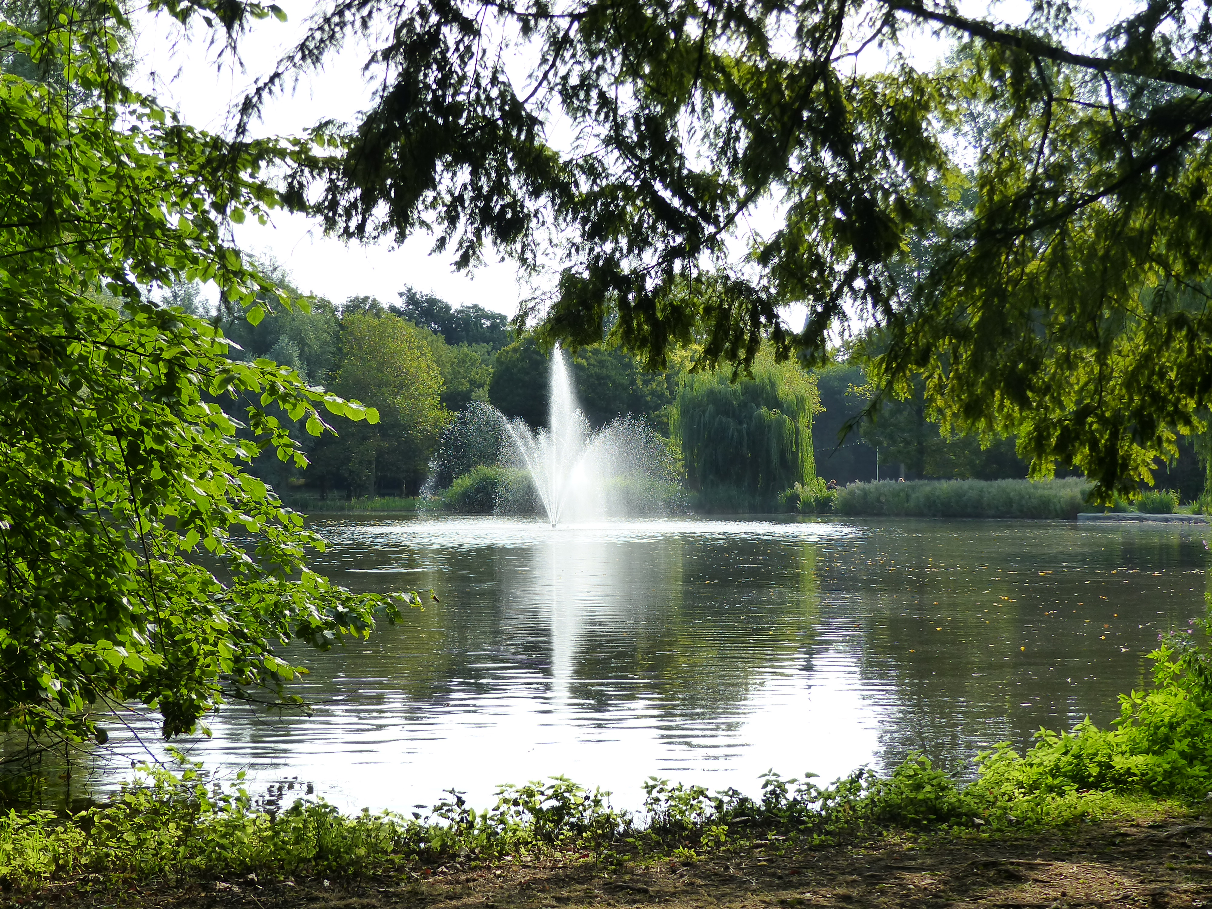 Oosterpark, Amsterdam, Netherlands on the 4th of August, 2018.